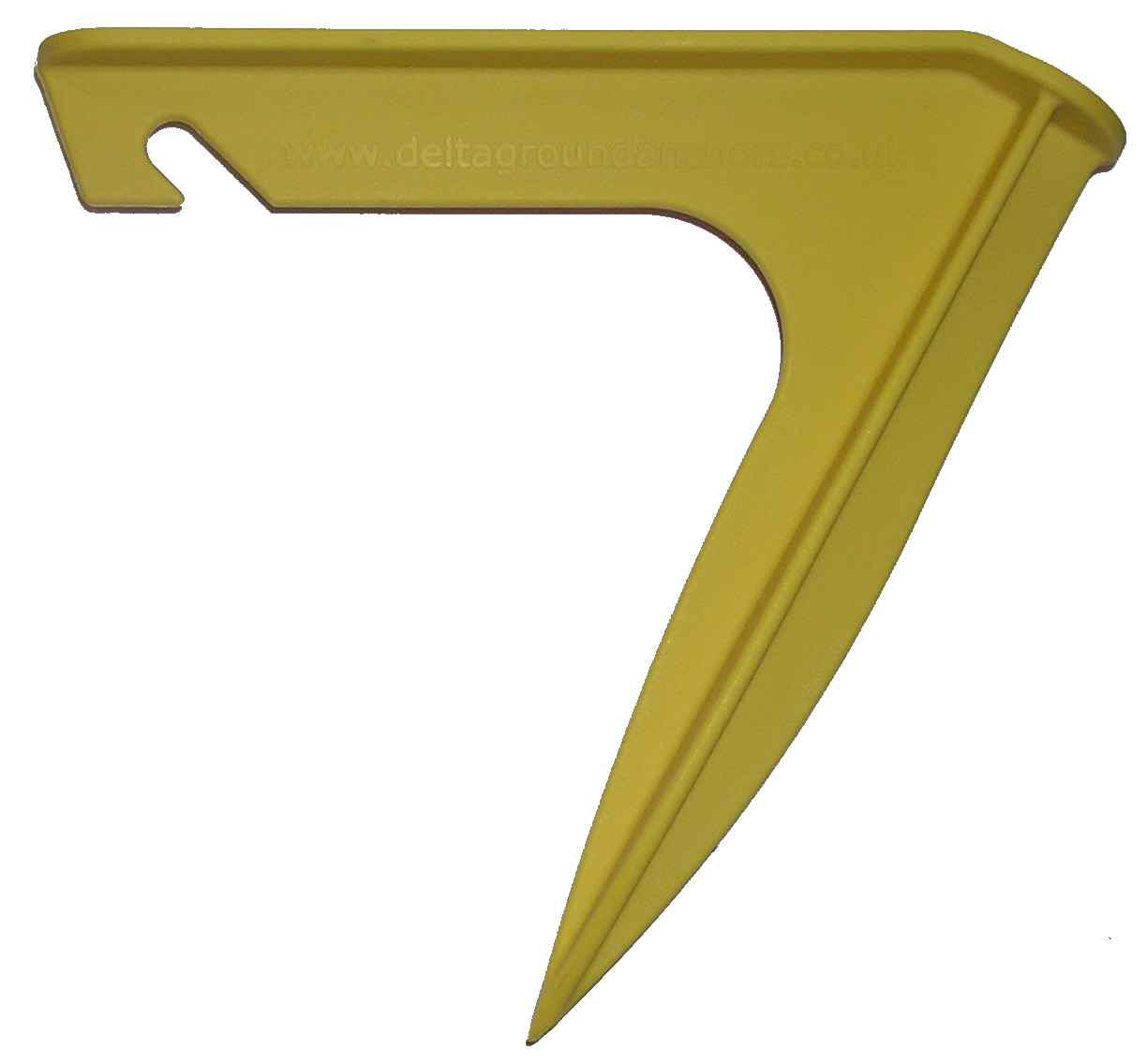 tent peg new design